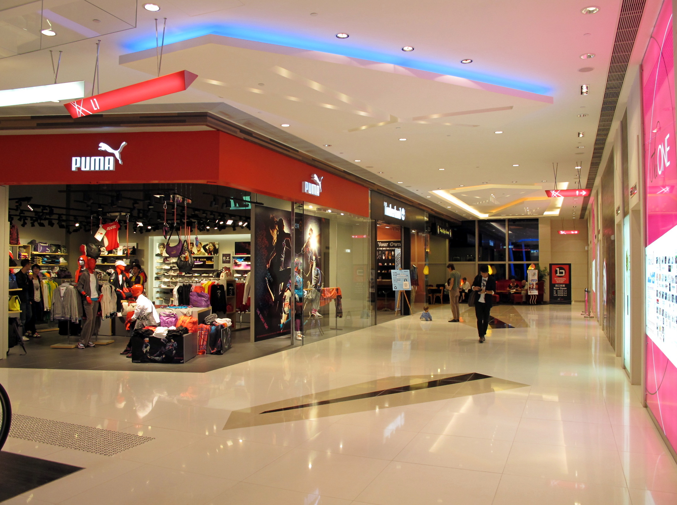 HK The ONE